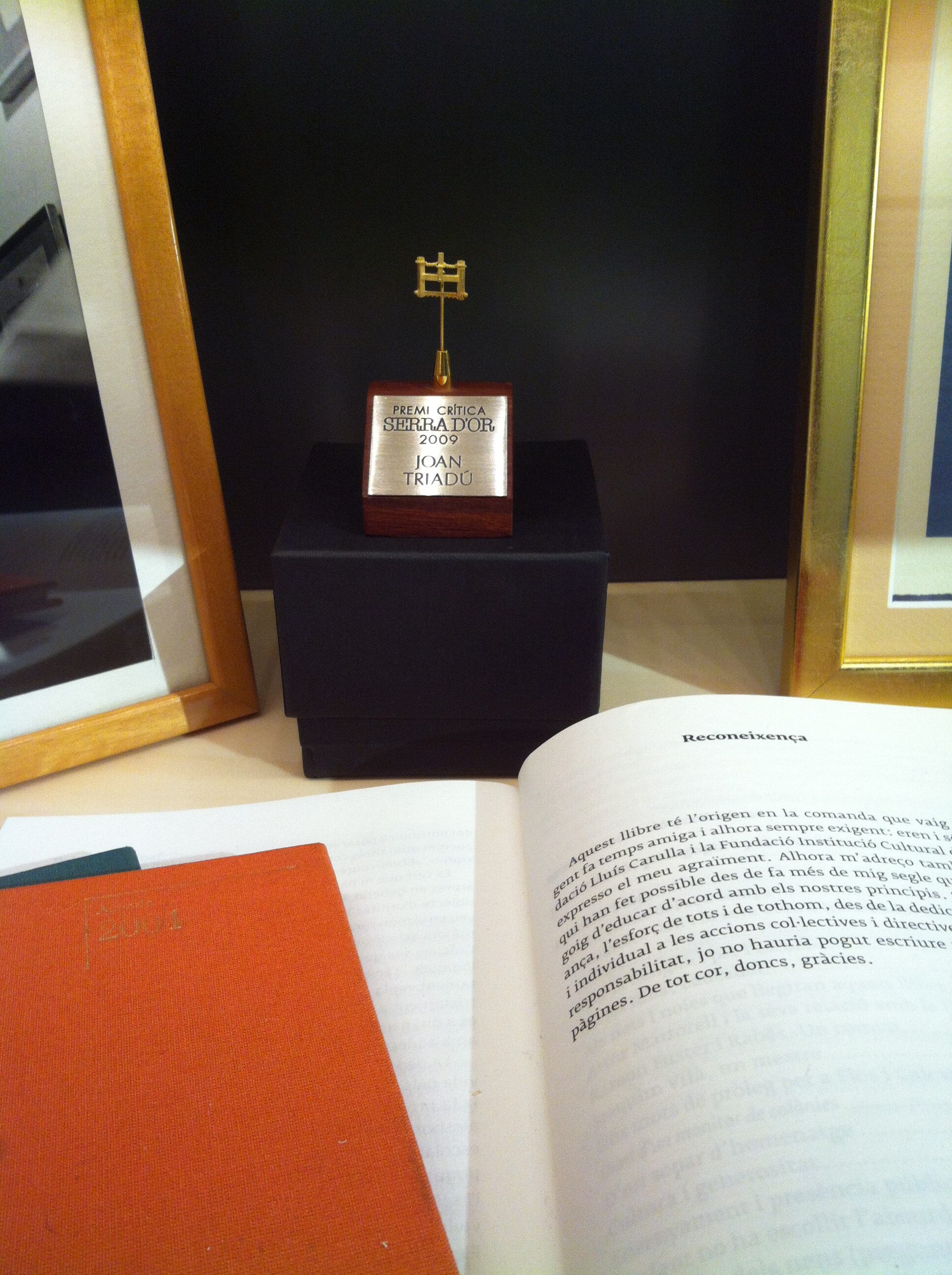 Llegir com viure Joan Triadú exhibit at Palau Robert in Barcelona (2013)